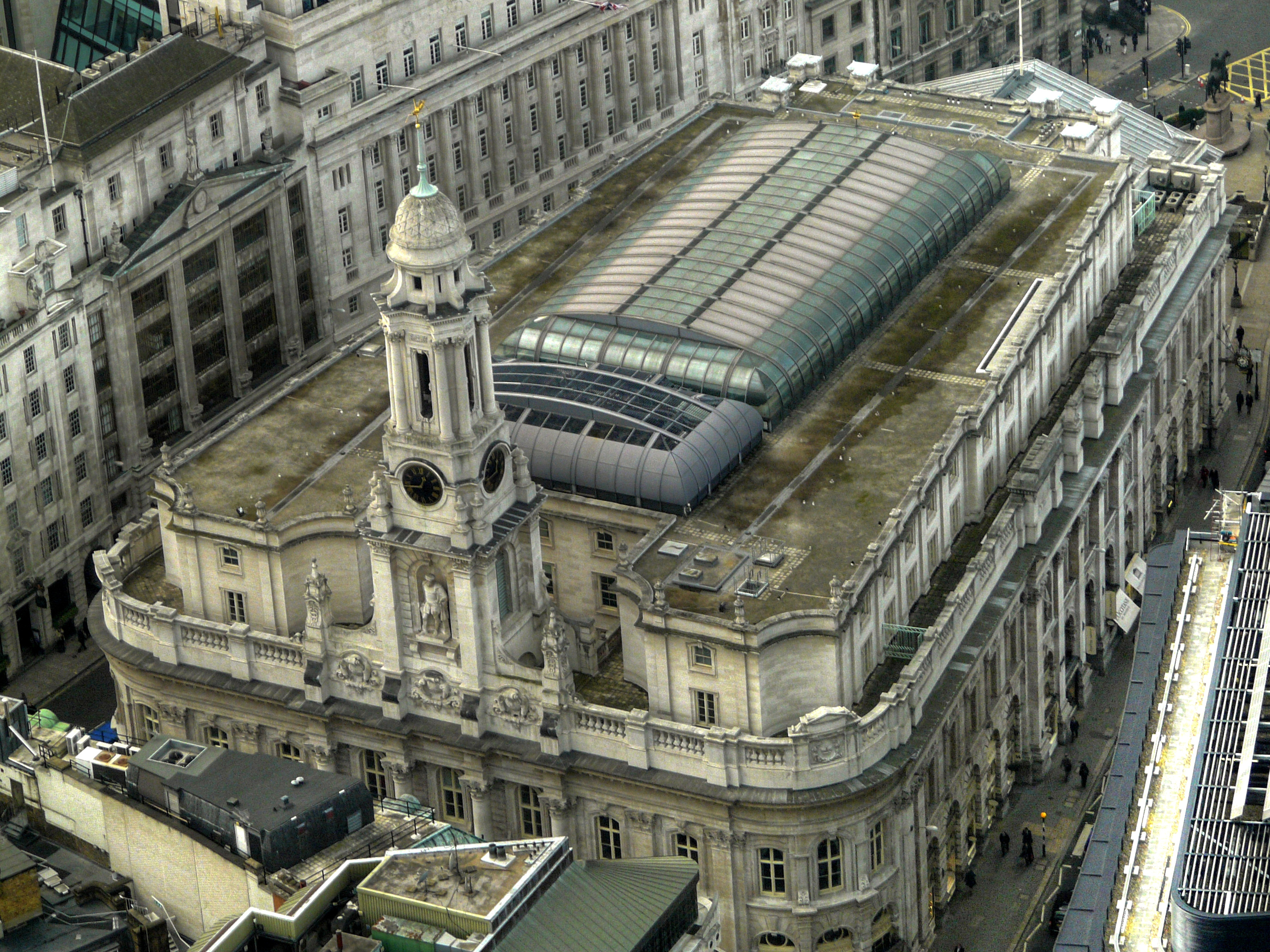 Royal Exchange, London, viewed from the nearby Tower 42. Mild HDR processing has been used.